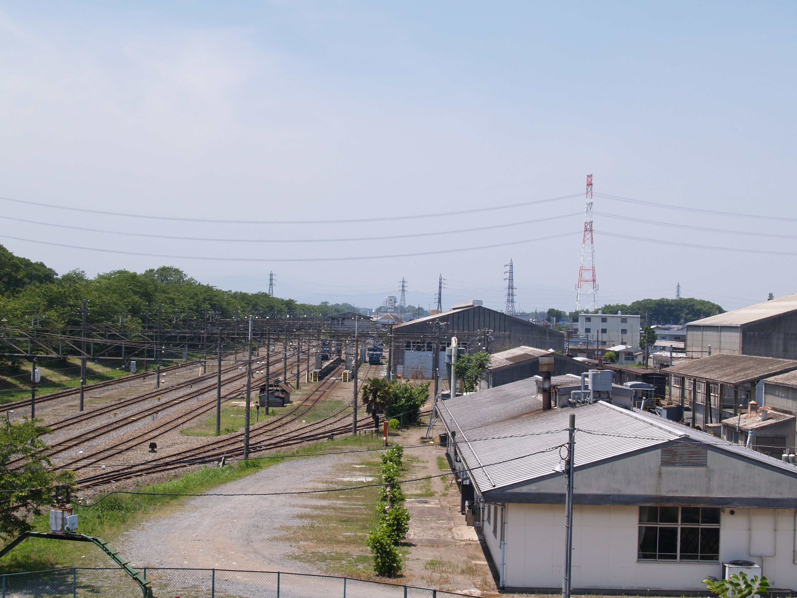 Hirosegawara Station and Hirosegawara Yard, viewed from the bridge east to the station